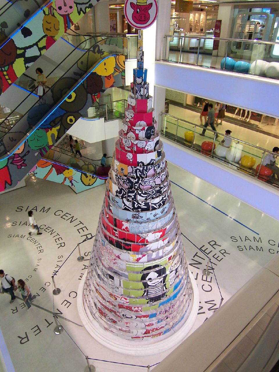 Siam Center, Pathum Wan district, Bangkok, Thailand.